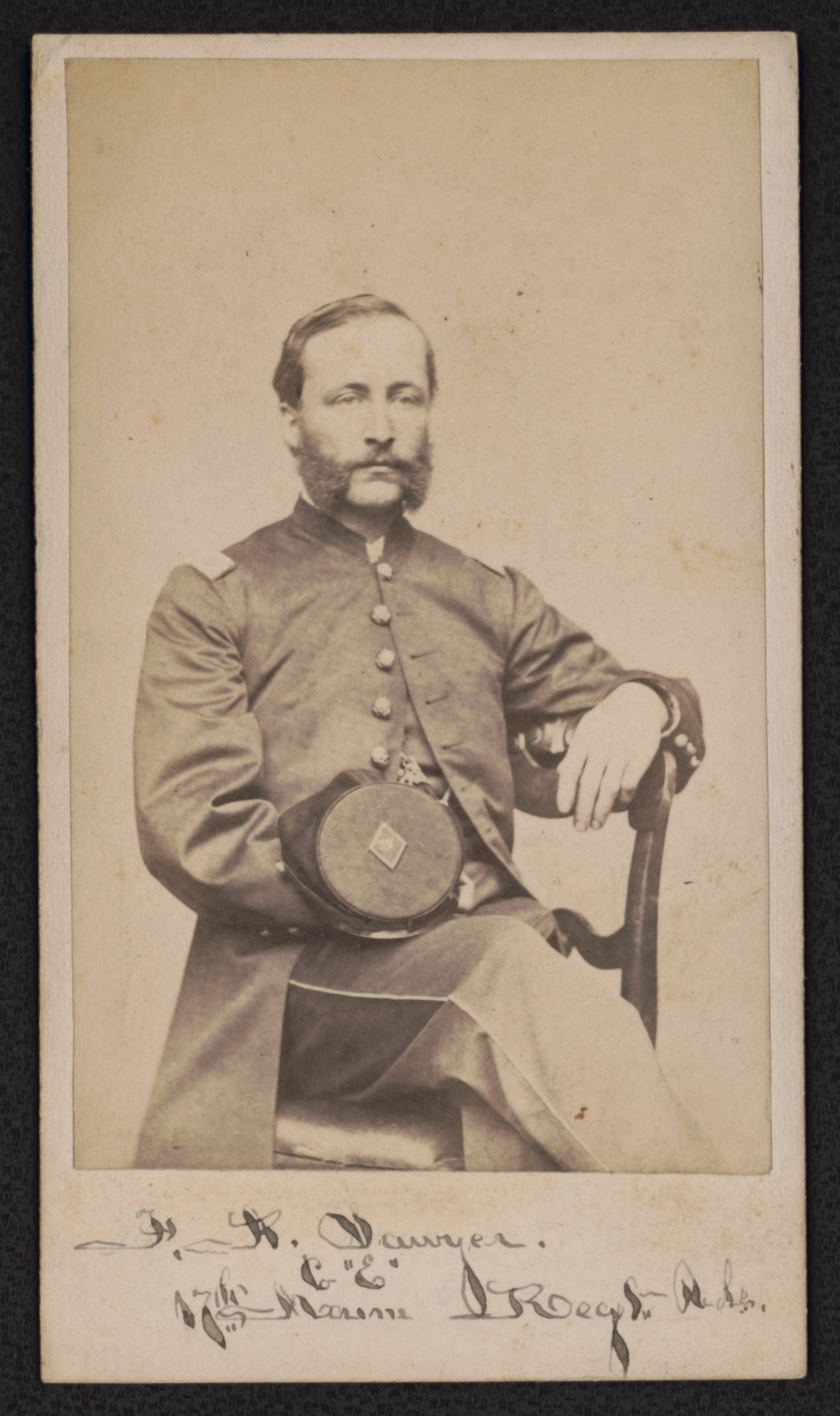 Title: First Sergeant Frederick A. Sawyer of Co. C, 1st Maine Infantry Regiment, and Co. E, 17th Maine Infantry Regiment, in uniform] / A.M. McKenney, photographist, No. 122 Middle St., Portland, Me Abstract/medium: 1 photograph : albumen print on card mount ; mount 11 x 7 cm (carte de visite format)